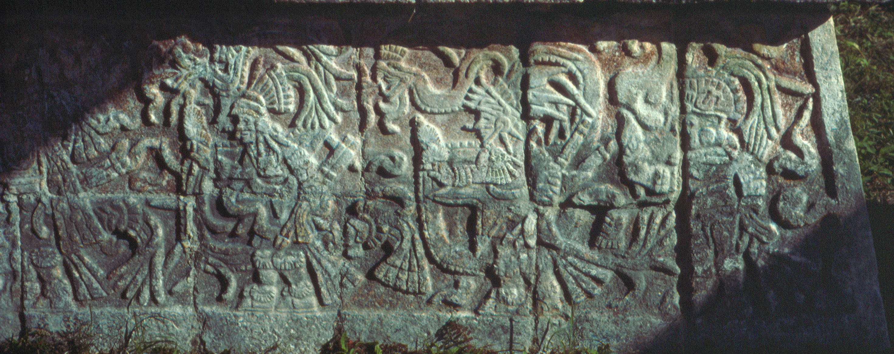 Chichen Itza, Yucatan, Mexico: Mil columnas group, altar relief.